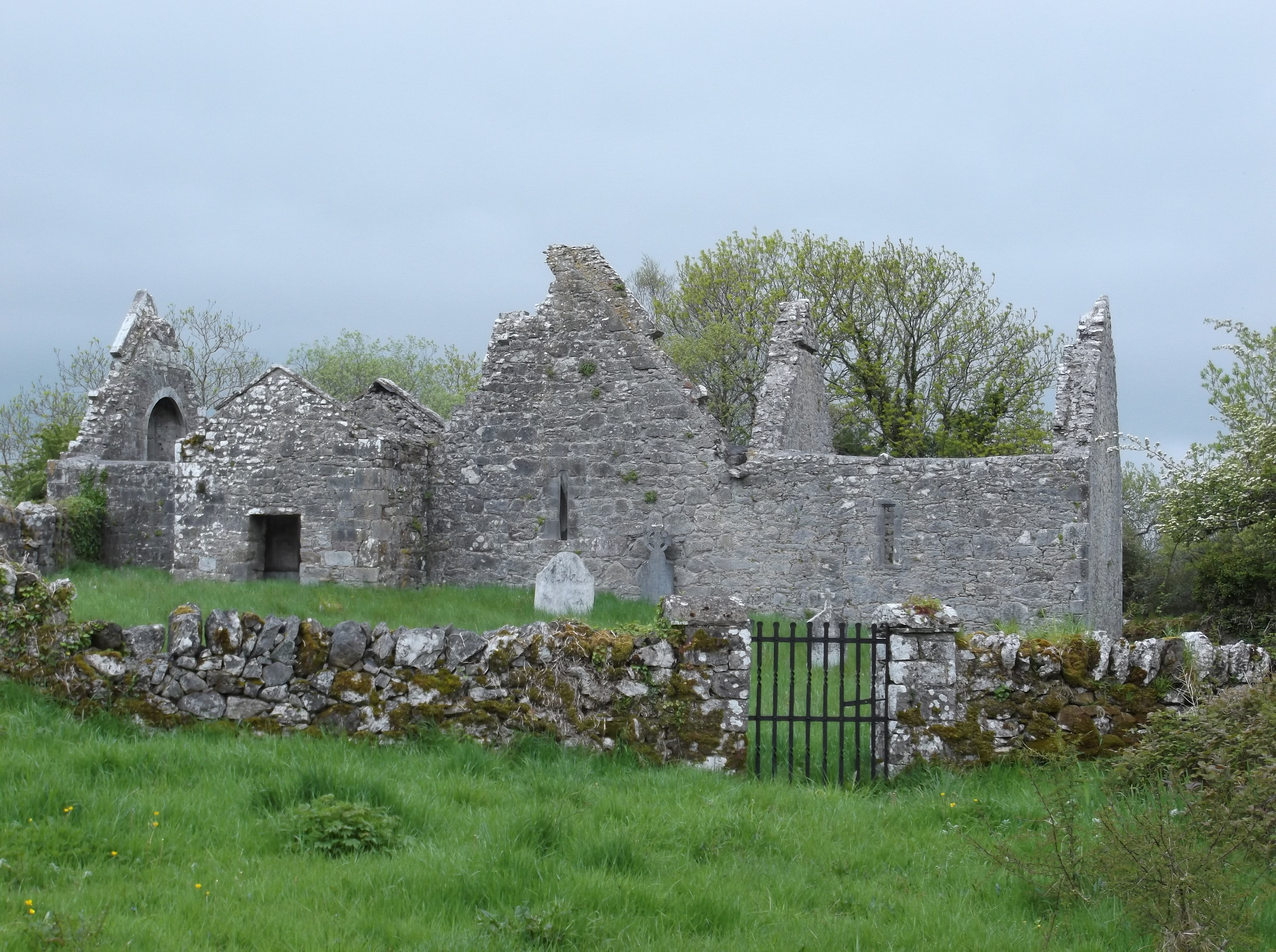 Photograph of the remains of Inchicronan Priory, Co. Clare, Ireland